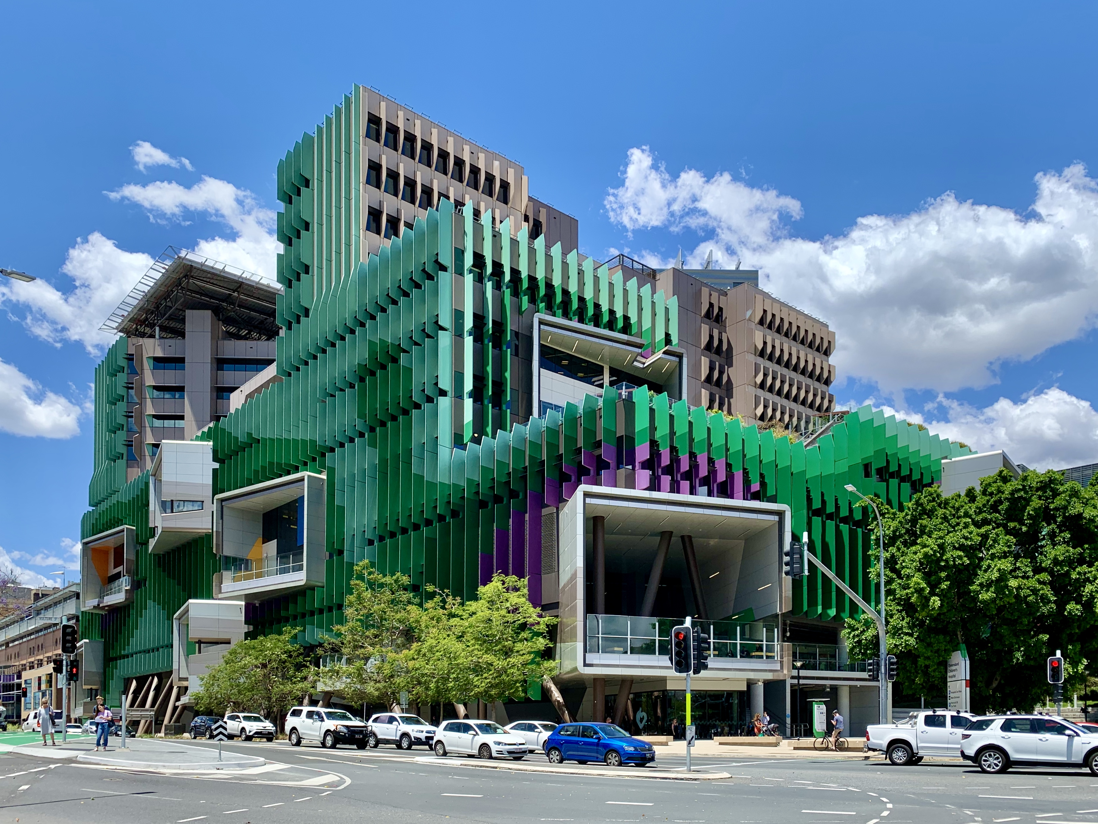 Queensland Children's Hospital in Brisbane, November 2019